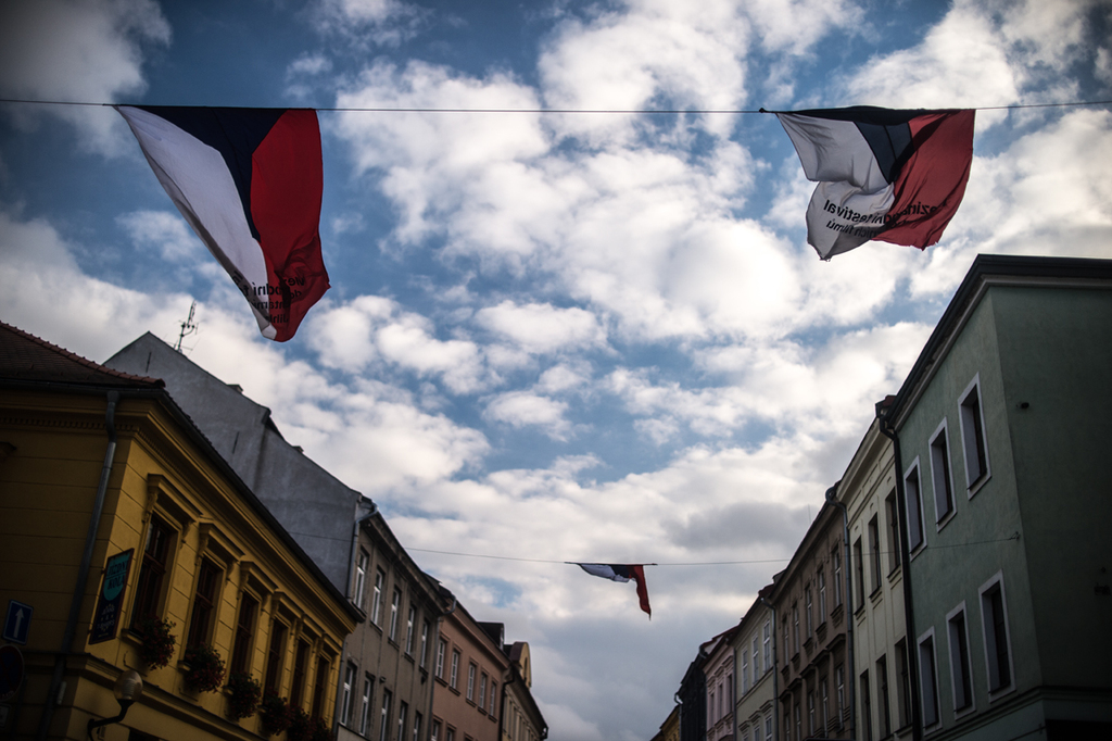 20th Ji.hlava IDFF 2016. Křižovatka ulice Palackého a ulice Husova. První dům zleva č.p. 1309 (č.p. 13). Město Jihlava. Kraj Vysočina. Czech Republik.